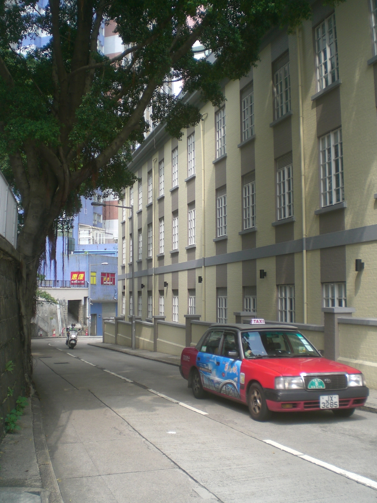 上環 醫院道